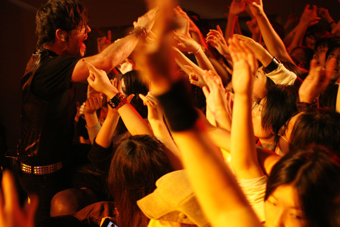 Japanese Tour, 2008